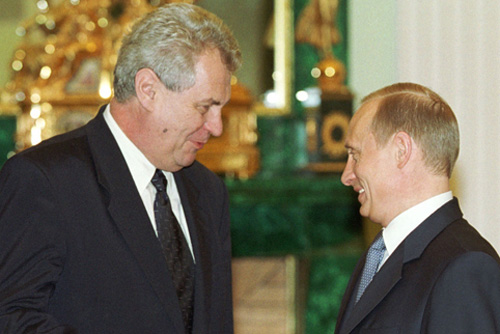 THE KREMLIN, MOSCOW. President Putin with Czech Prime Minister Milos Zeman.